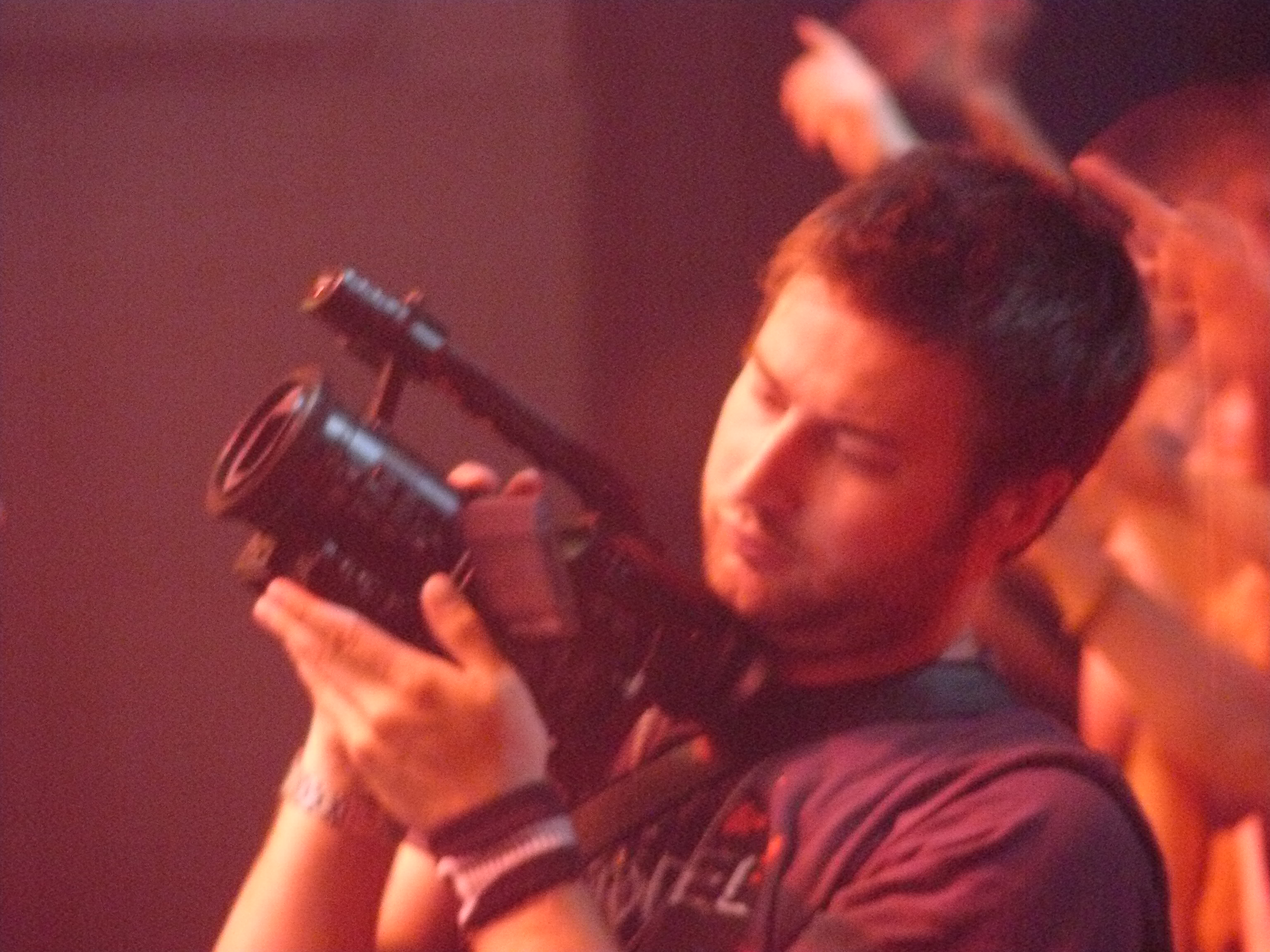 Patrick Langlois videotapes his band, Simple Plan, while being caught on camera himself.